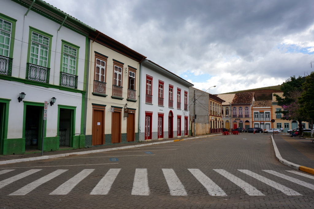 Praça Oswaldo Cruz, São Luiz do Paraitinga - SP, Brazil